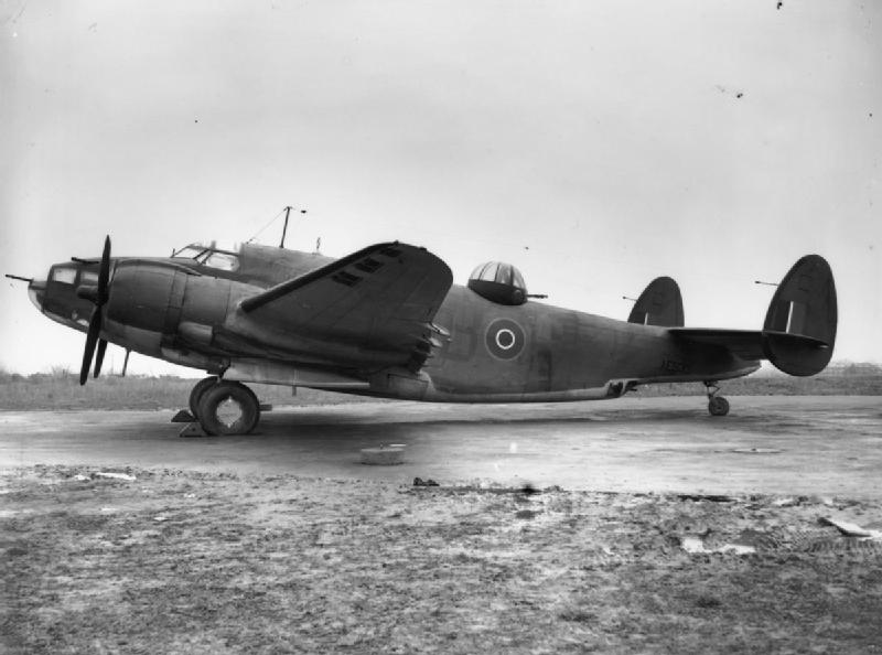 Ventura Mark II, AE939 ‘SB-C’, of No. 464 Squadron RAAF, on the ground at RAF Feltwell, Norfolk.